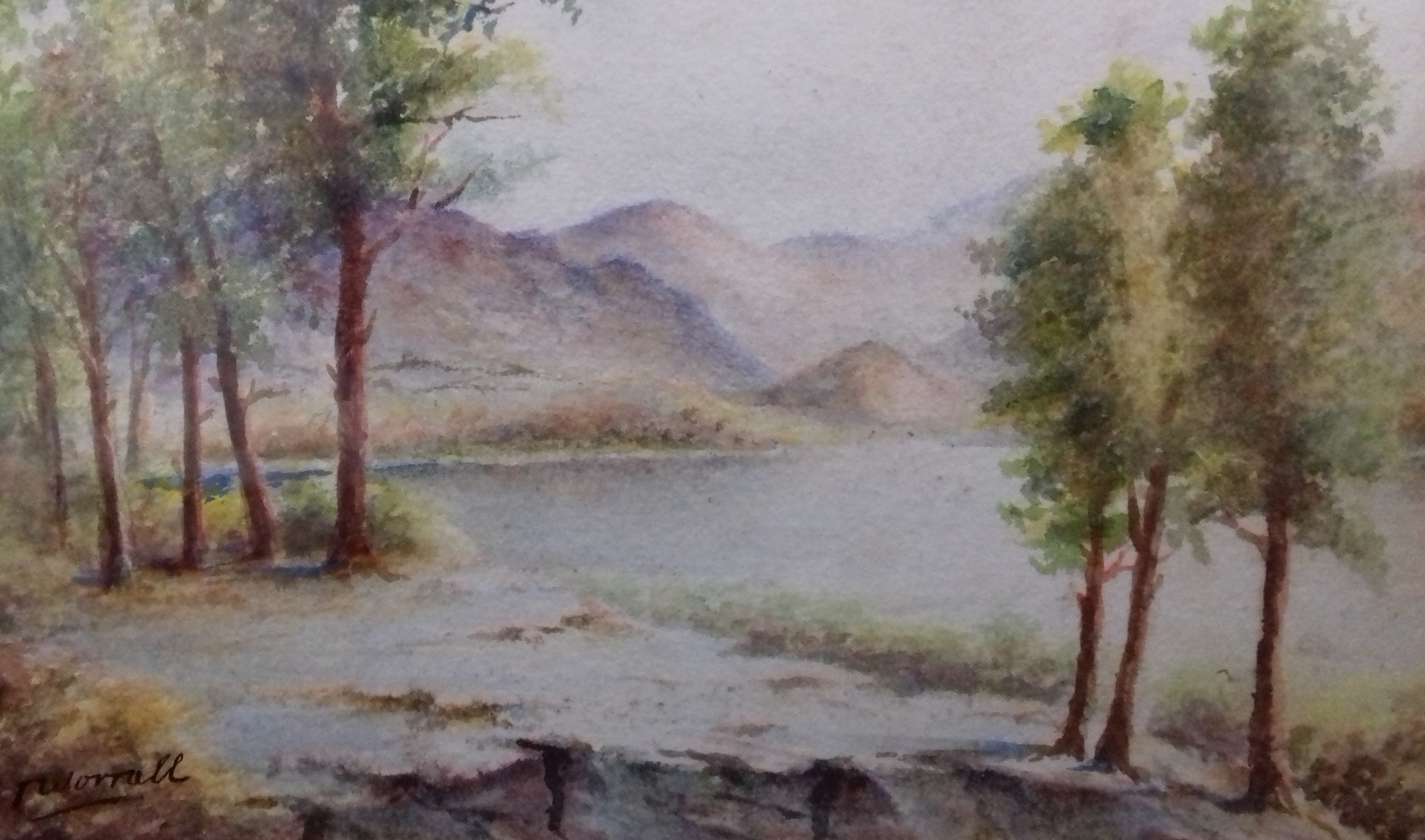 Painting of Derwentwater, Lake District, UK, dated 1947. Thomas Worrall's brother William died in Keswick and is buried nearby. William painted this while on a visit to his brother's grave.